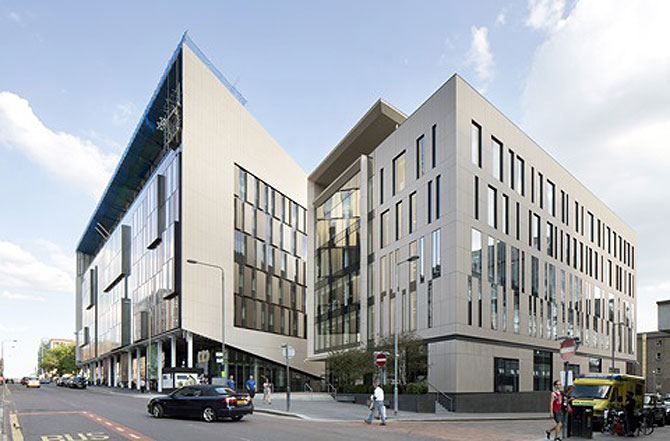 The University of Strathclyde is Glasgow's second largest university, known for its world leading roles in science, technology and engineering with the opening of the innovation centre in 2015. Strathclyde University was derived from the Royal College of Science and Technology